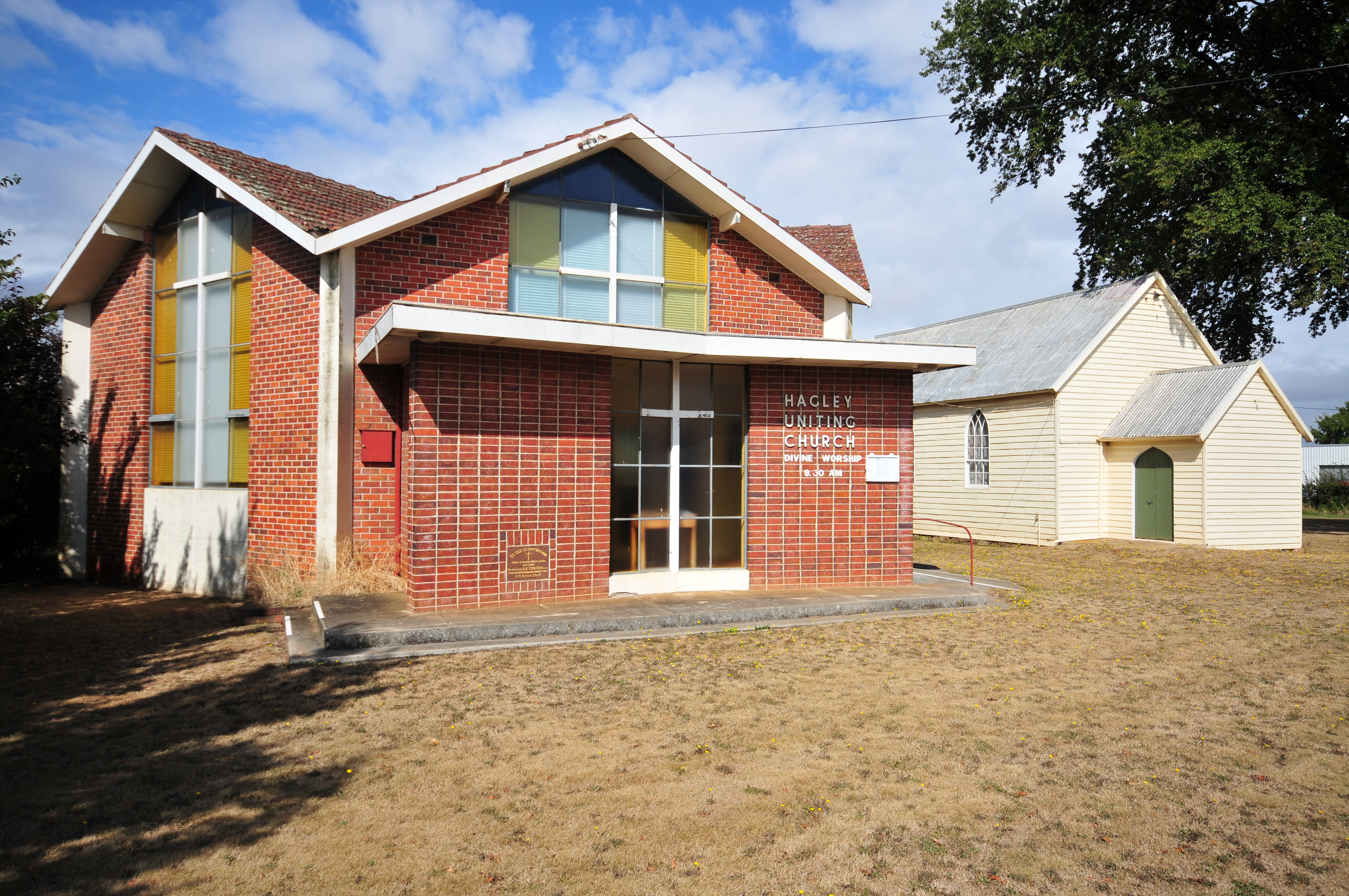 The 1859 Methodist chapel (read) next to the 1957 Uniting Church in Hagley, Tasmania, Australia